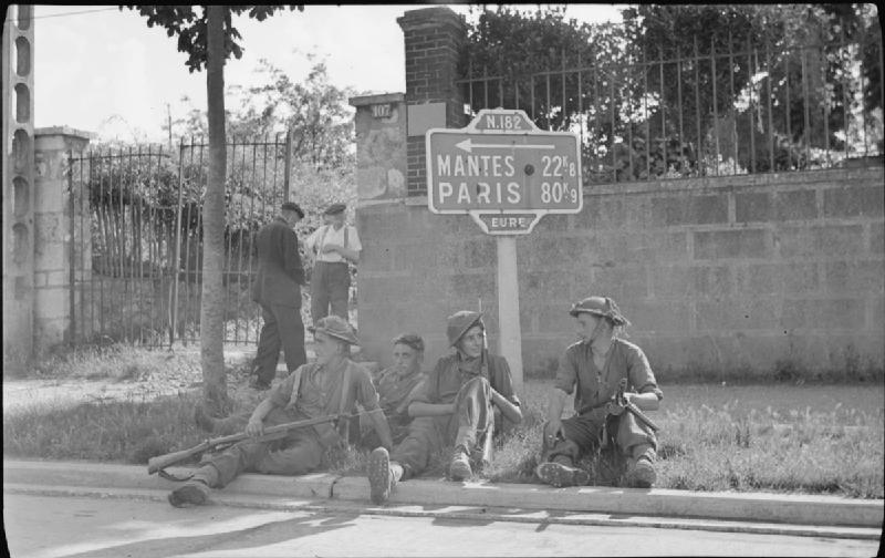 The British Army in North-west Europe 1944-45 Troops resting by a signpost in Vernon, 25 August 1944.